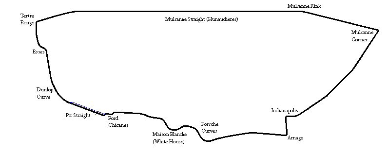 The Circuit de la Sarthe, Le Mans circuit from 1972 to 1978.